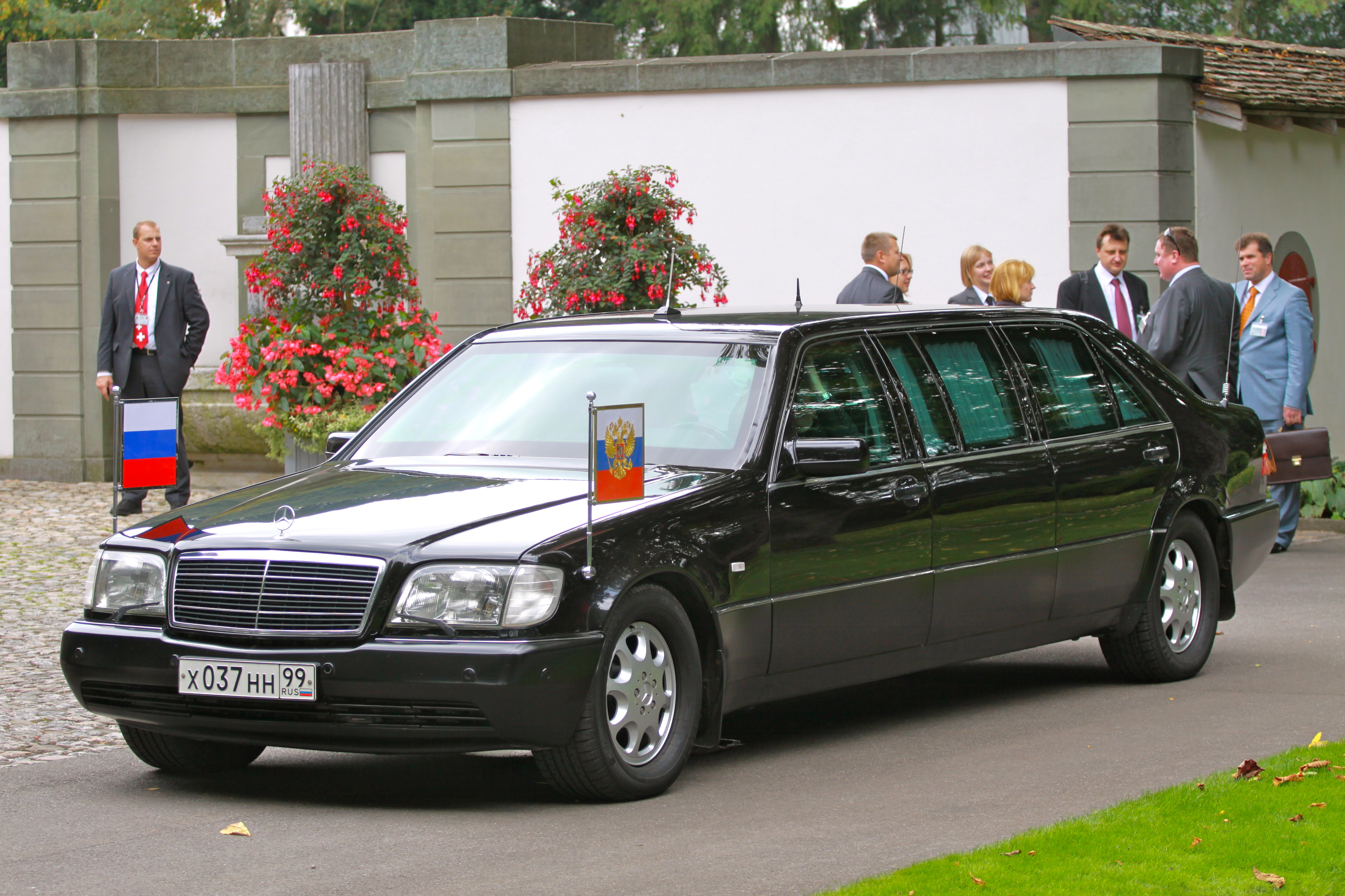 Zuerich, CHE, 21.09.2009: Praesident Dmitri Medwedew beim Staatsbesuch in der Schweiz. Die Staatskarrosse fuer Praesident Dmitri Medwedew im Landgut Lohn in Bern. [ (c) Juerg Vollmer / maiak - The Newsroom, Postfach 5093, 8045 Zuerich, fon: +41 44 586 11 43, ; You are free to copy, distribute and transmit the foto free of charge with attribute by the author and . ; ArchivNr.: Staatsbesuch Dmitri Medwedew - 44 ; ]